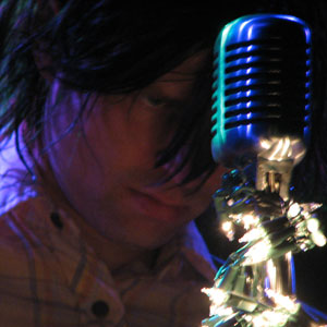 Ryan Adams live at the Commodore Ballroom in Vancouver, BC.